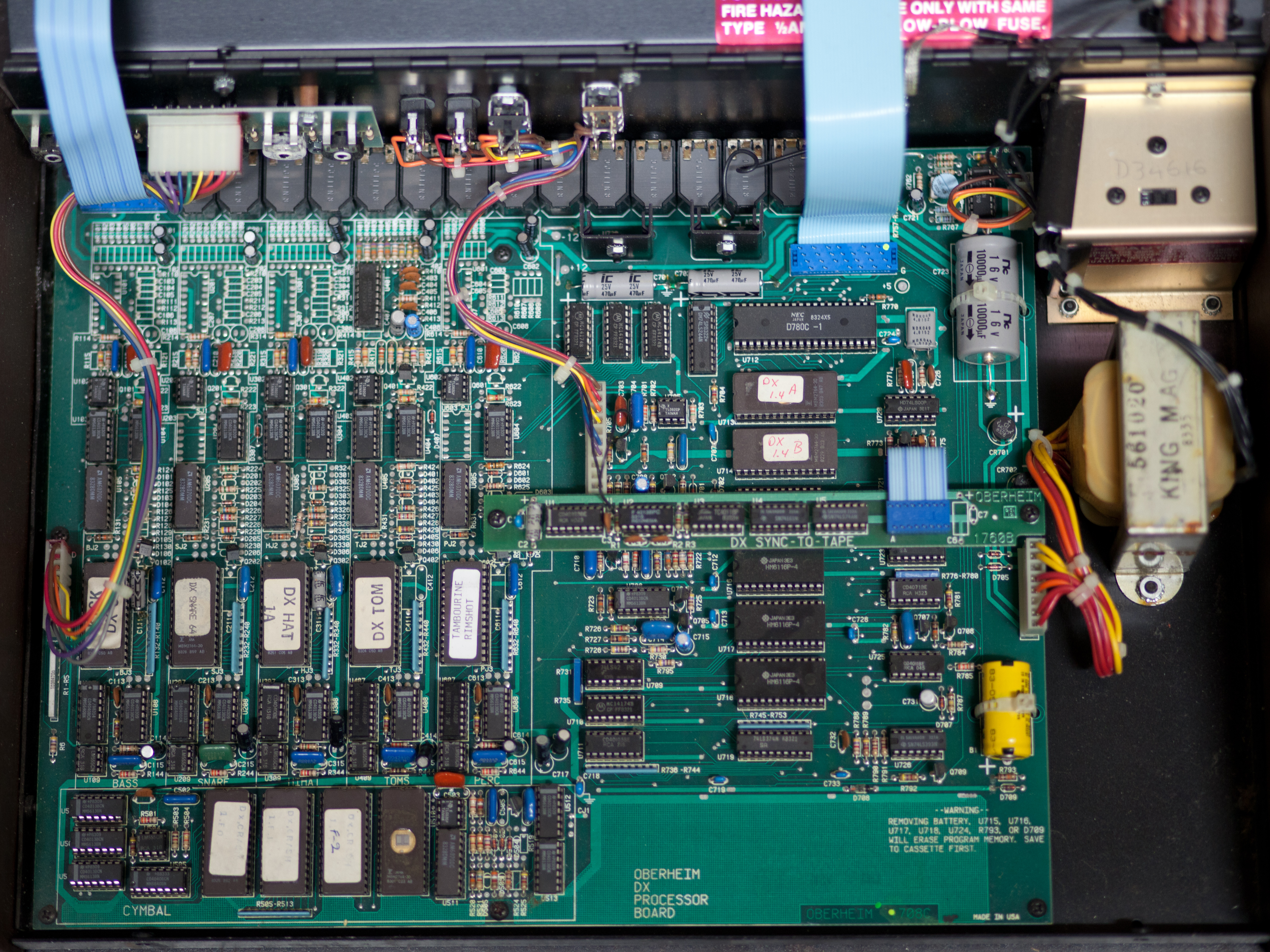 Processor board on an Oberheim DX synthesizer drum machine (1982).